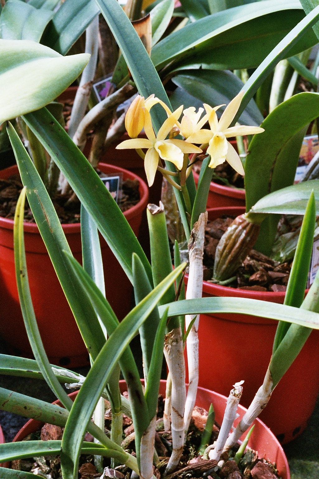 Brassocattleya Sommersonne